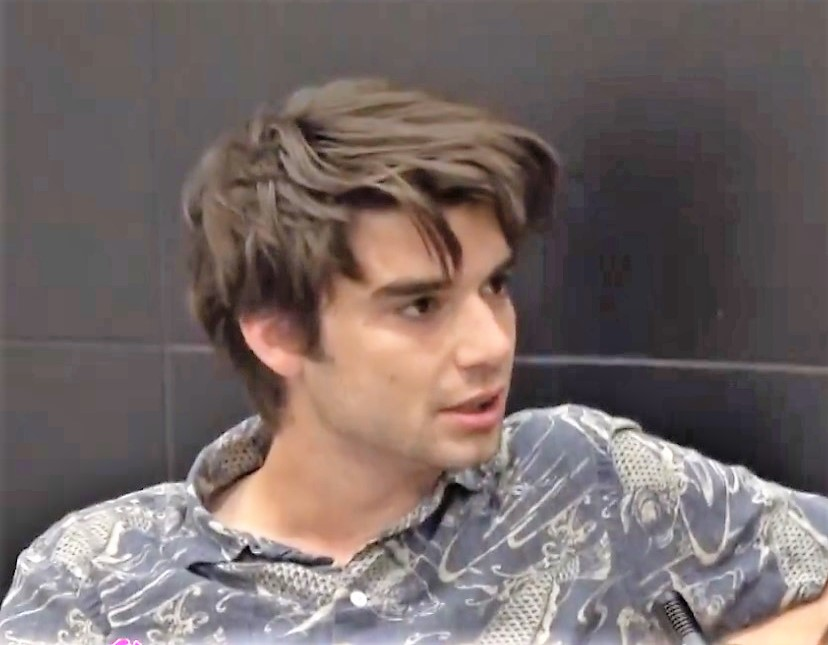 🍭 CRAZY FUN! Daniel Doheny & Eduardo Franco reveal "The Package" Actor Daniel Doheny interviewed about his film "The Package". by Dulce Osuna